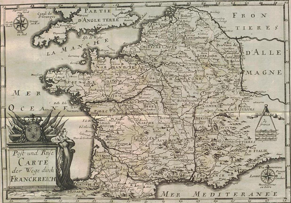 Stagecoach routes through France